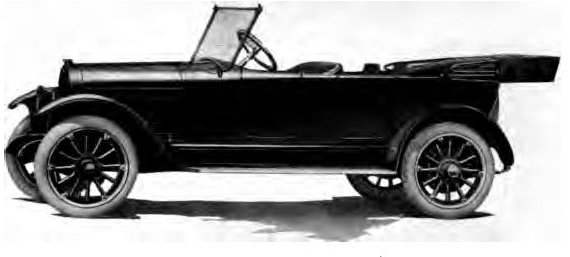 Image is of a 1916 Marion-Handley Automobile. It comes from the Automobile Year Book (1916) published by the Automobile department of McClure's magazine, The McClure Publications , inc. The scanned book is part of the Internet Archive collection. The notes at this site describe the source as: Book digitized by Google from the library of the University of Michigan and uploaded to the Internet Archive by user tpb.